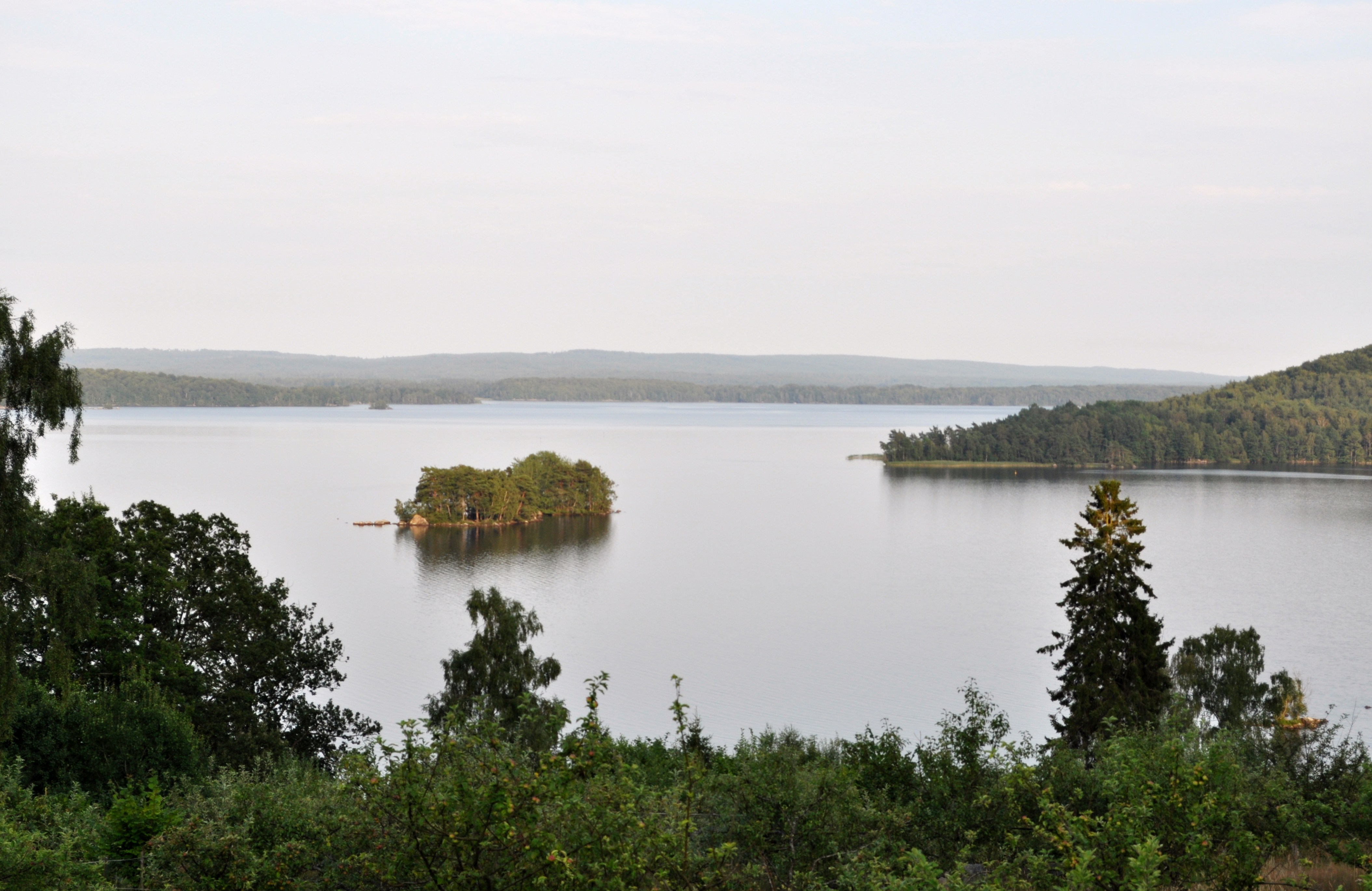 Ivösjön from the street Furustadsvägen - Barum - Vånga